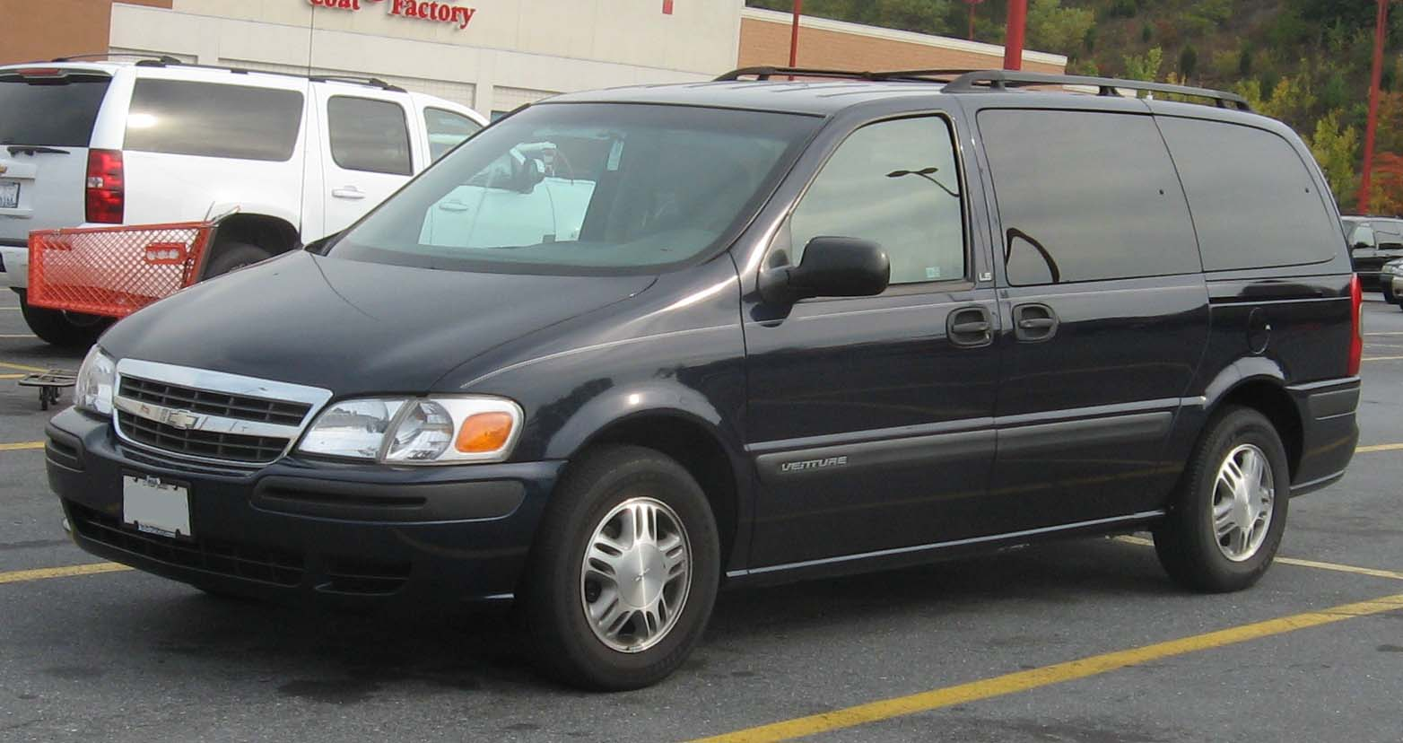 2001-2005 Chevrolet Venture photographed in Greenbelt, Maryland, USA.